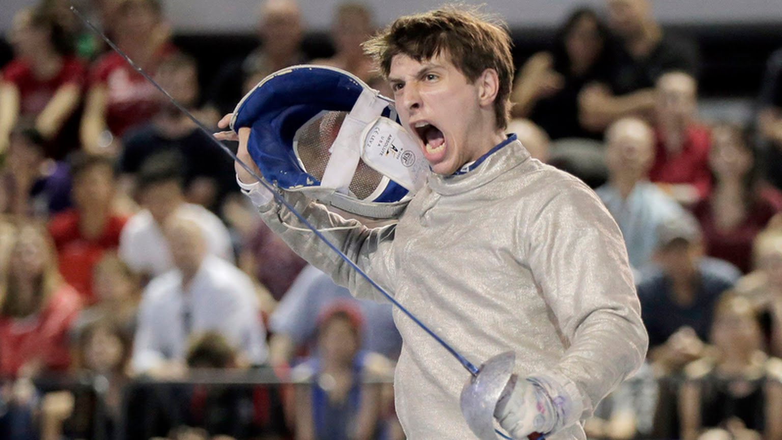 Eli Dershwitz DOMINATES the competition.